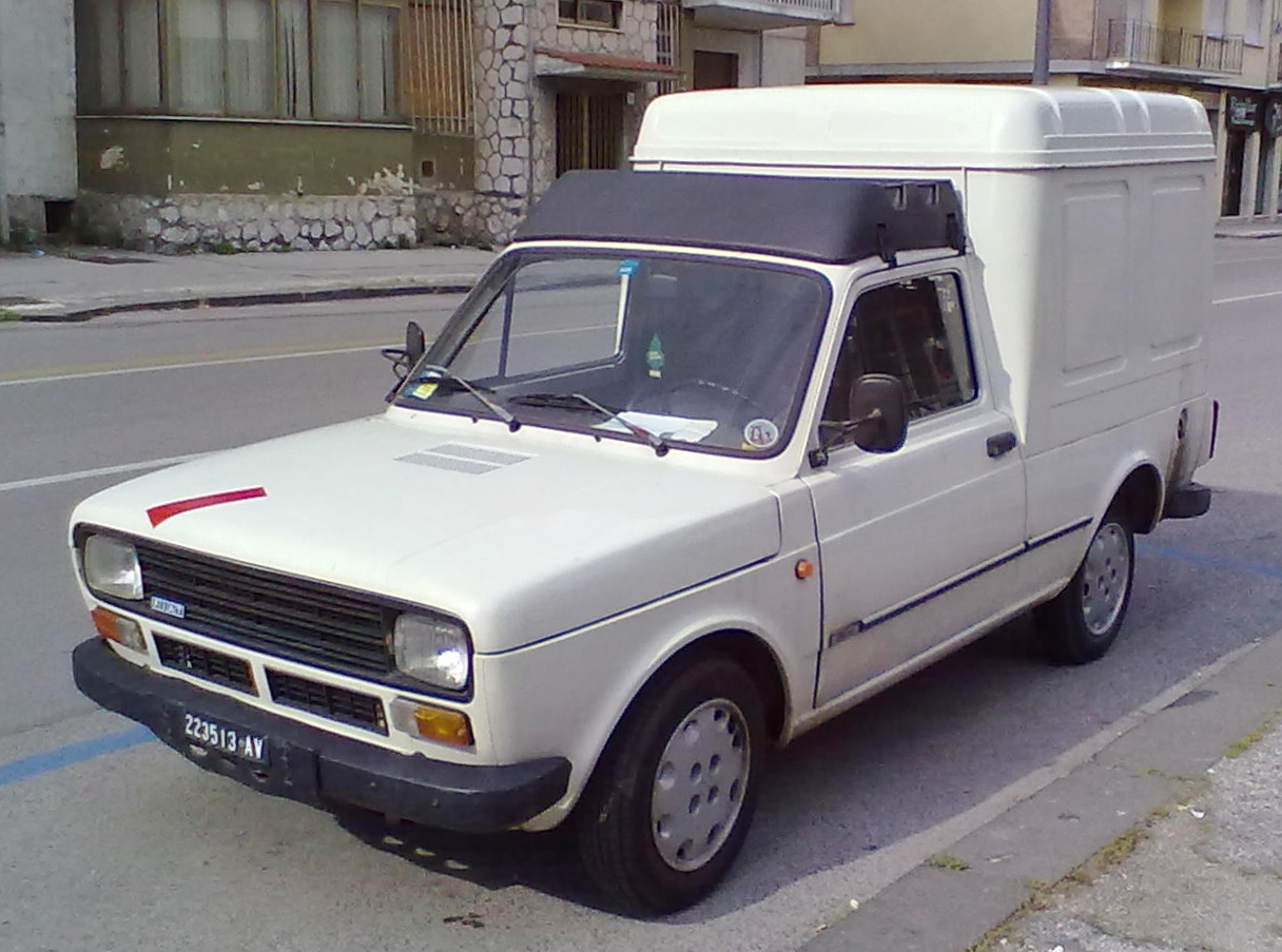 Fiat Fiorino panel van 1st generation facelift